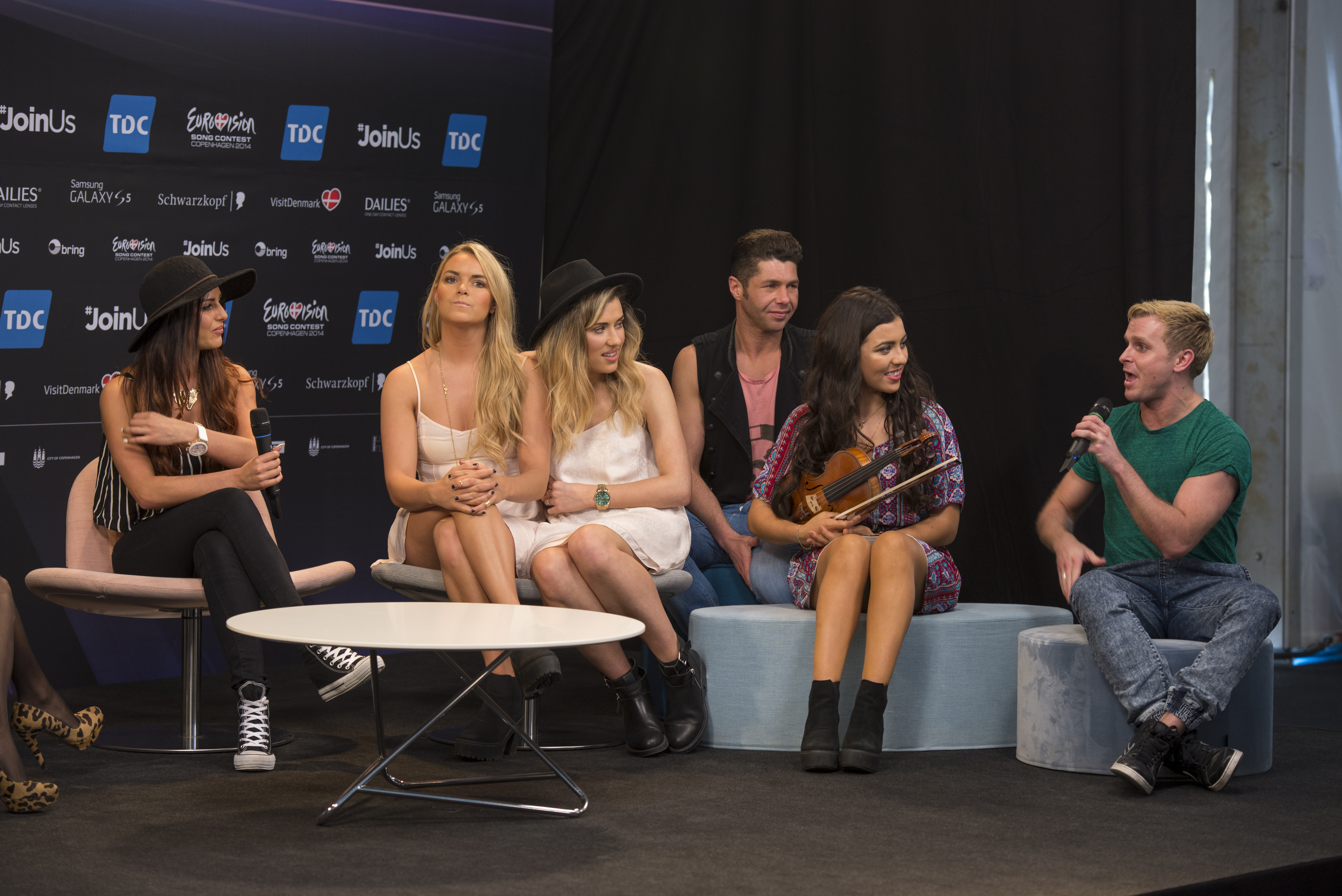 Can-linn and Kasey Smith at a Meet & Greet during the Eurovision Song Contest 2014 Copenhagen. (Help translate this text)